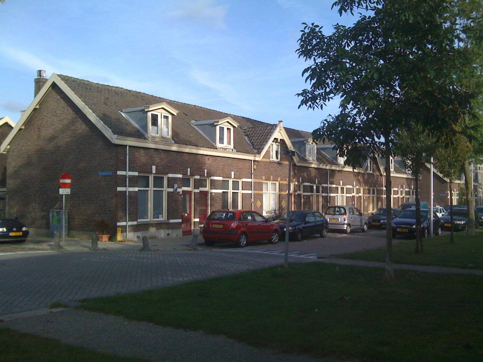 Utrecht, NL: 2de Daalsedijk